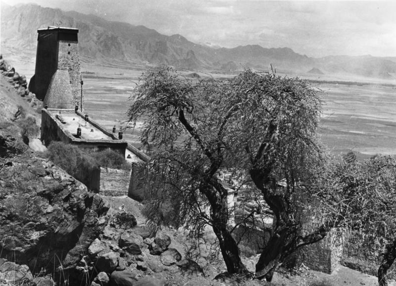 Tibetexpedition, Kloster Tashi Lhunpo Schigatse, Kloster Tashilumpo [Tashilumpo, Tashilhunpo, Zhaxilhünbo, Tashi Lhunpo; Shigatse]